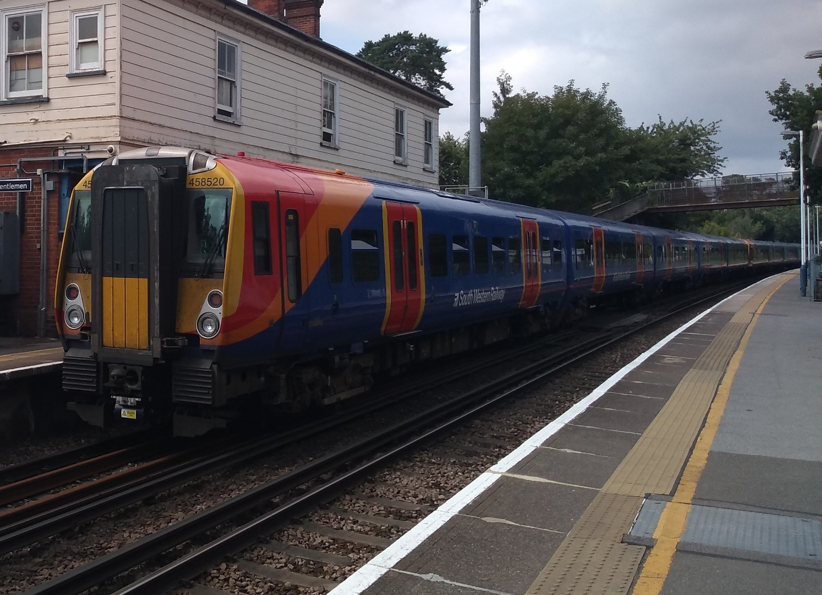 South Western Railway Class 458520 (in South West Trains livery) at Earley station in 2019